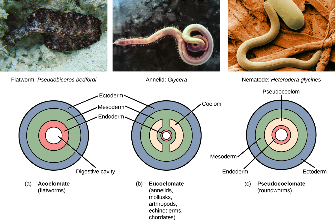 Figure 27.10 Body cavities. Triploblasts may be (a) acoelomates, (b) eucoelomates, or (c) pseudocoelomates. Acoelomates have no body cavity. Eucoelomates have a body cavity within the mesoderm, called a coelom, in which both the gut and the body wall are lined with mesoderm. Pseudocoelomates also have a body cavity, but only the body wall is lined with mesoderm. (credit a: modification of work by Jan Derk; credit b: modification of work by NOAA; credit c: modification of work by USDA, ARS)